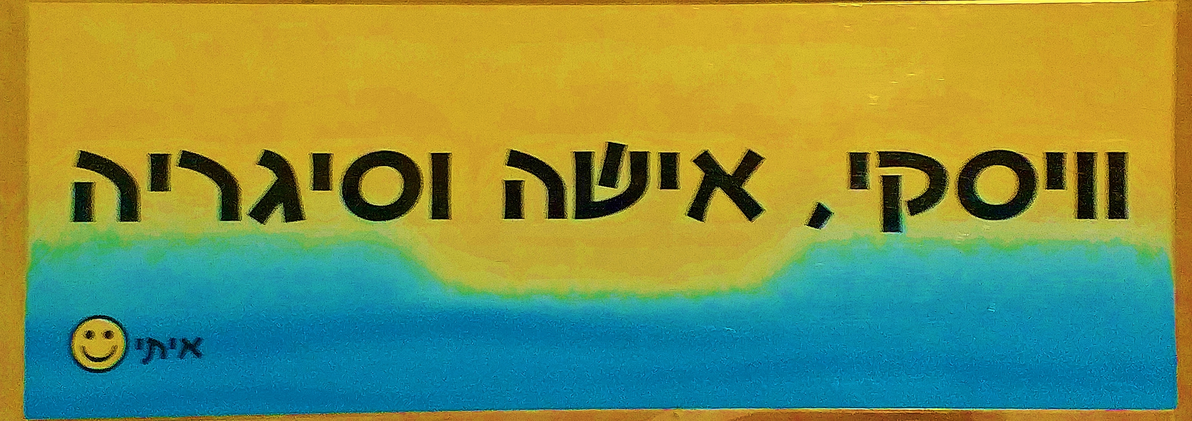 memorial sticker